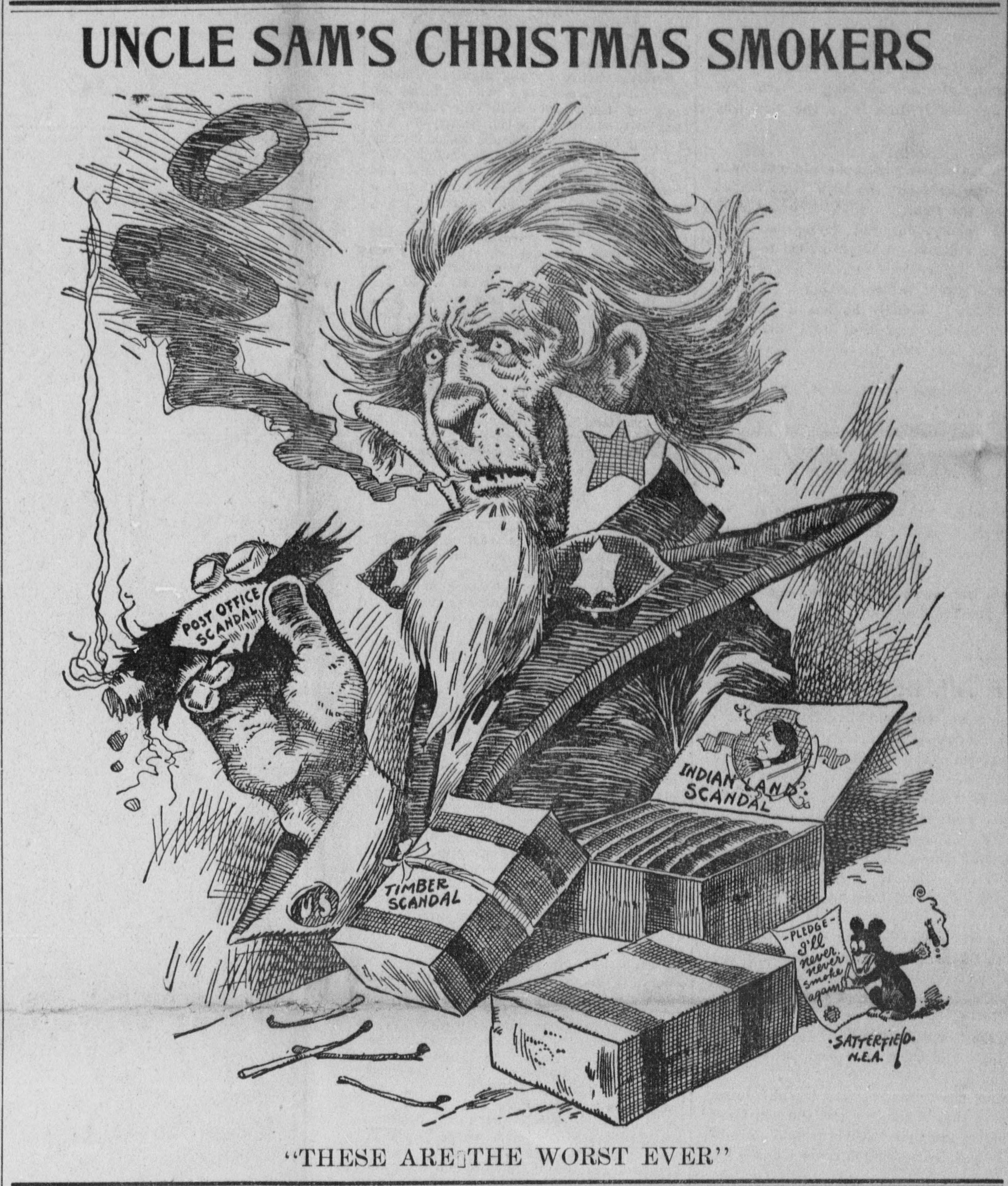 Editorial cartoon, "Uncle Sam's Christmas Smokers." The cartoon depicts Uncle Sam having received several cigars as Christmas presents; however, they are actually exploding cigars -- that is, various scandals in the United States.